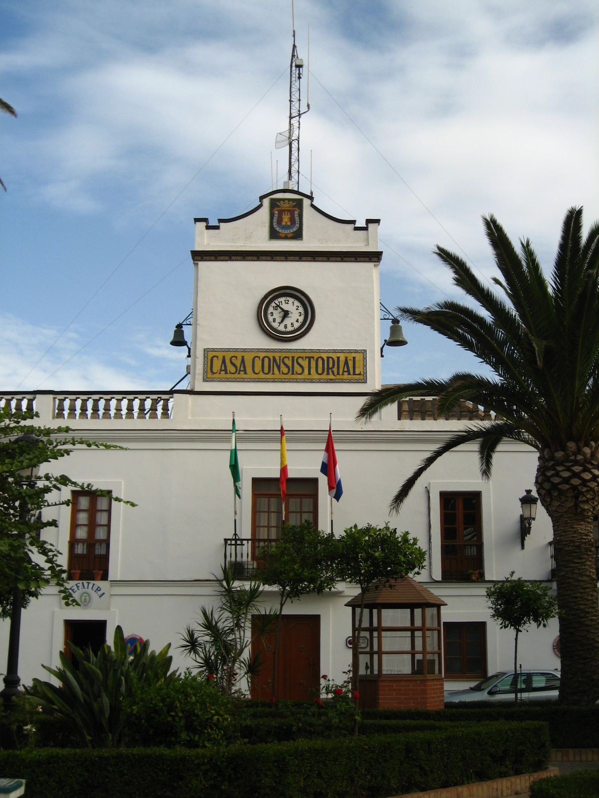 Town hall of Tarifa